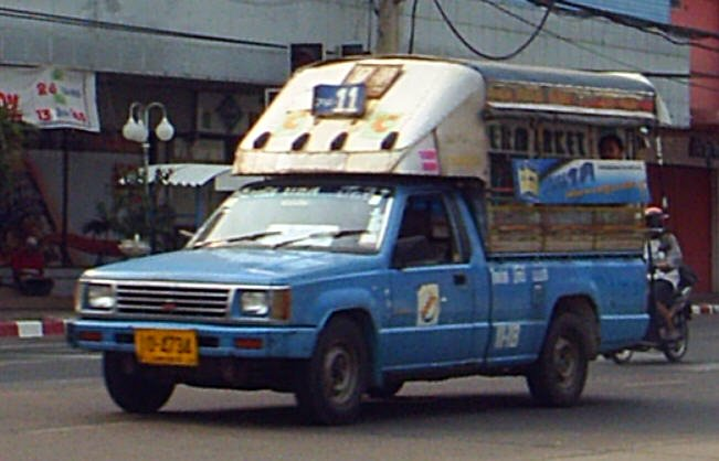 Songthaew at Ubon Ratchathani, Thailand; picture taken by User:Markalexander100 13 March 2005.